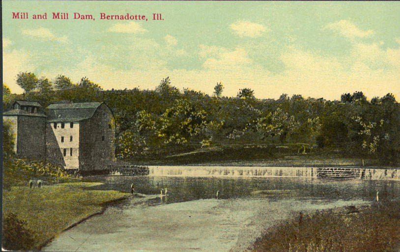 view of the Mill and Mill Dam in Bernadotte